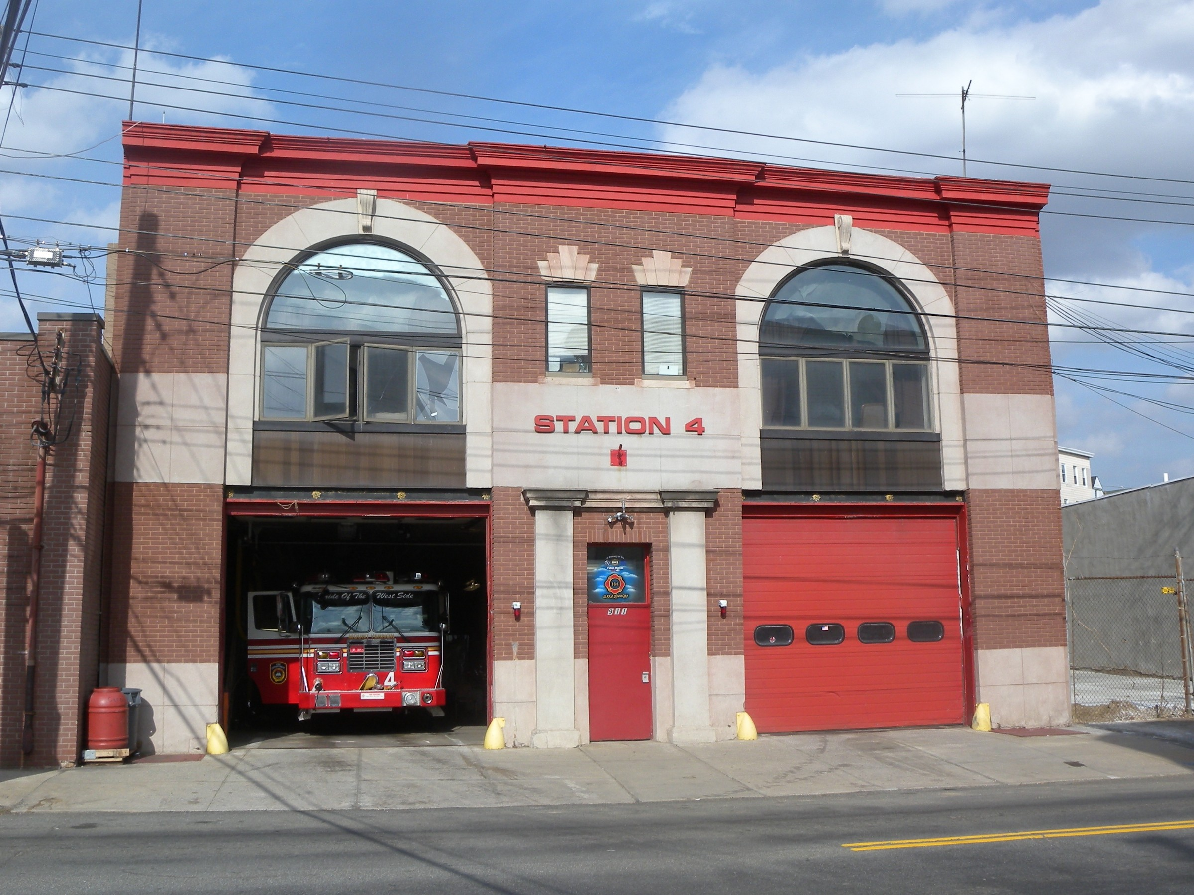 Looking north from Bleeker Street at Fire Station 4 on a mostly sunny early afternoon.